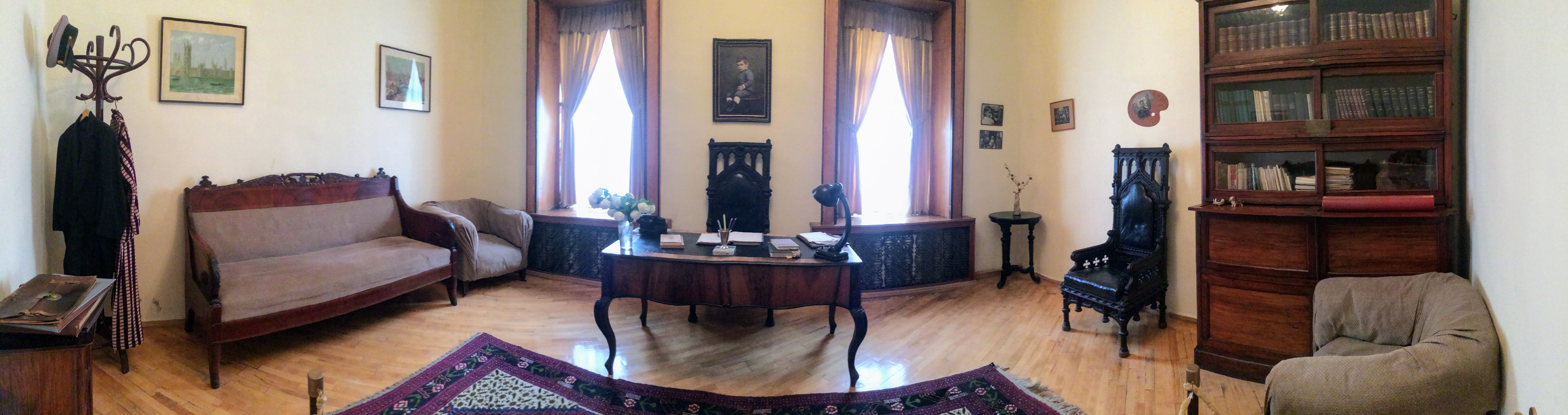 Panorama from Orbeli Brothers Museum